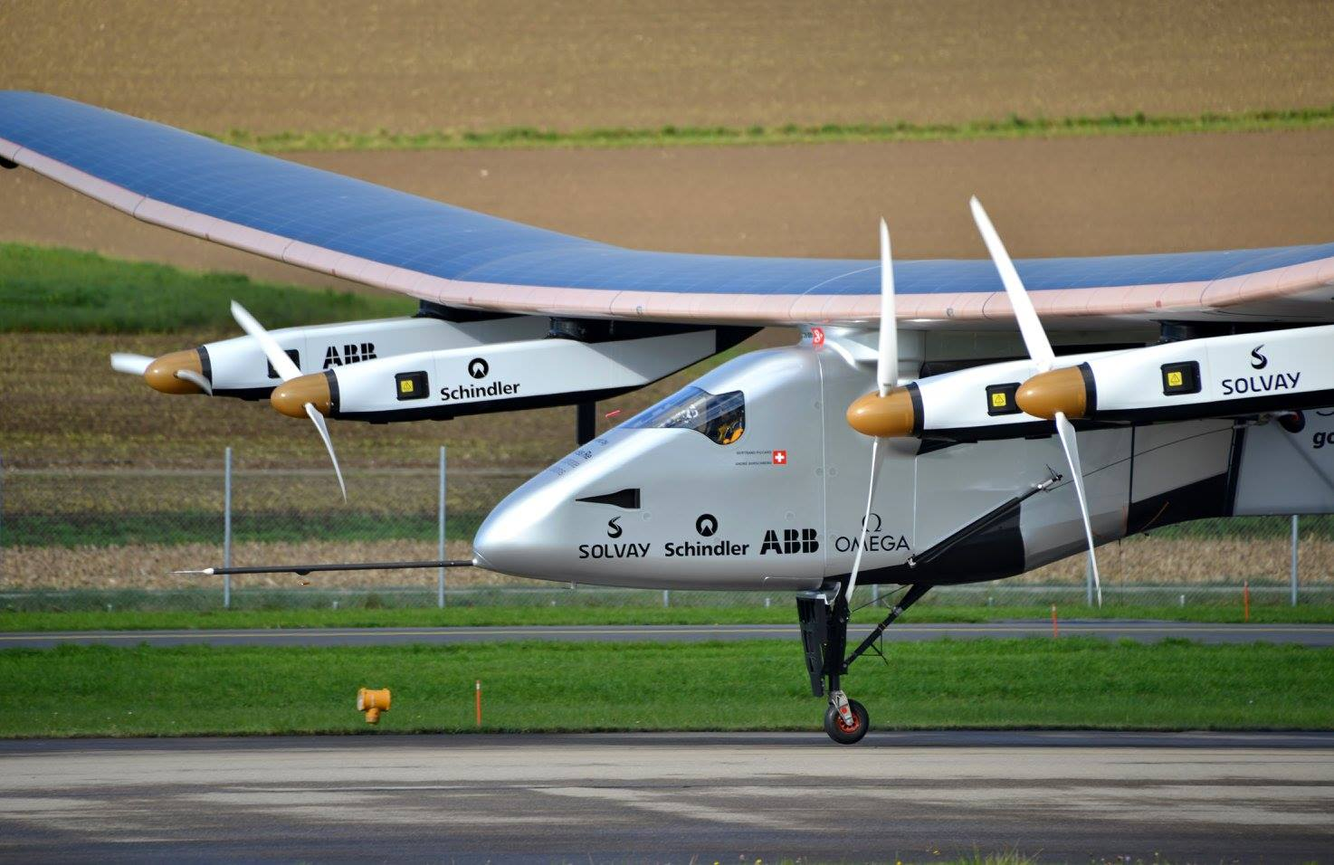 Solar Impulse 2, piloted by Bertrand Piccard, taking off from Payerne Air Base on 13 November 2014.